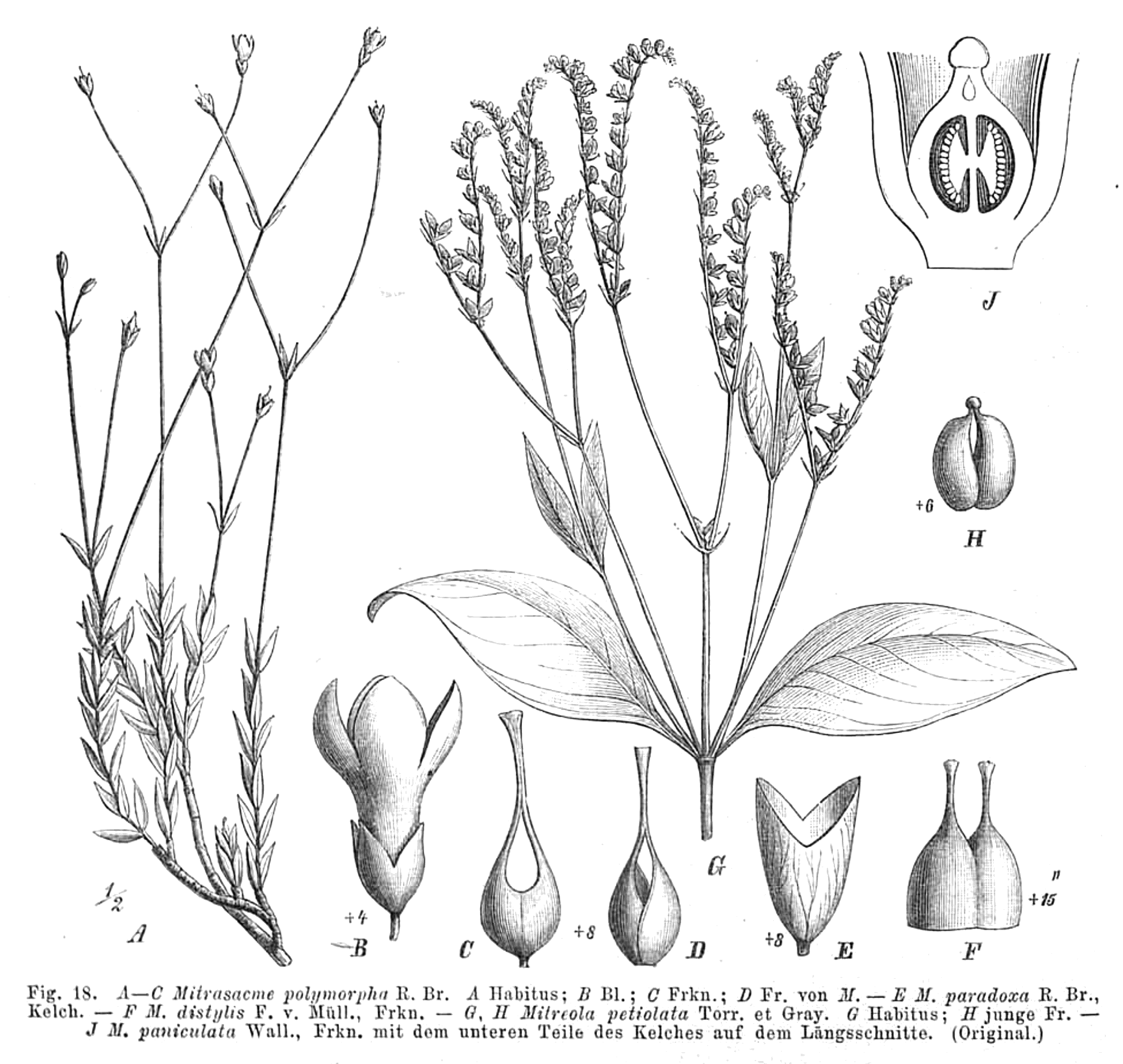 Mitrasacme, Mitreola spp.A-D. Mitrasacme polymorpha R.Br.: A. Habitus. B. Flower. C. Ovary. D. Fruit. E. M. paradoxa=Phyllangium paradoxum: Calyx. F. M. distylis=Phyllangium distylis: Ovary. G/H.: Mitreola petiolata Torr.&A.Gray: G. Habitus. H. Young fruit. J. M. paniculata Wall=M. petiolata: Long. cut of calyx and ovary.